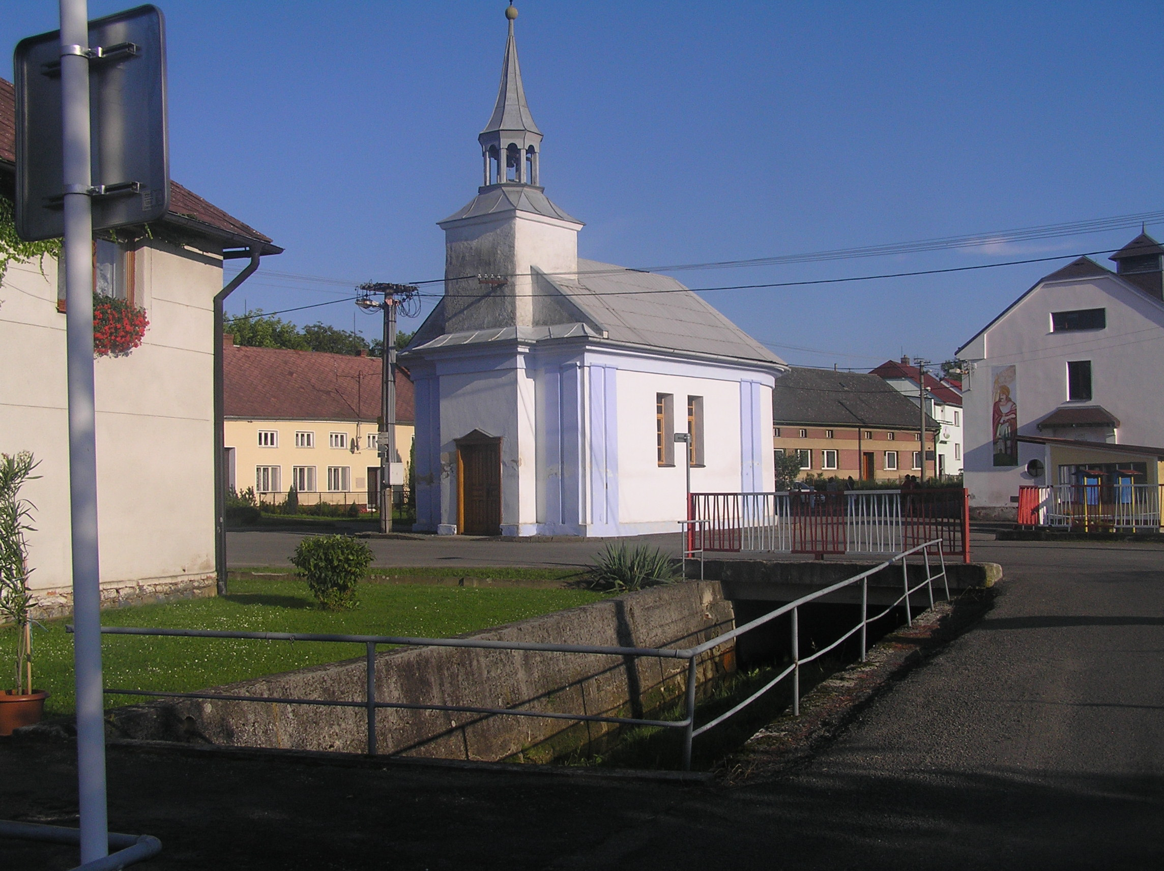 Lazníčky is the small village in Olomouc Region, Czech Republic